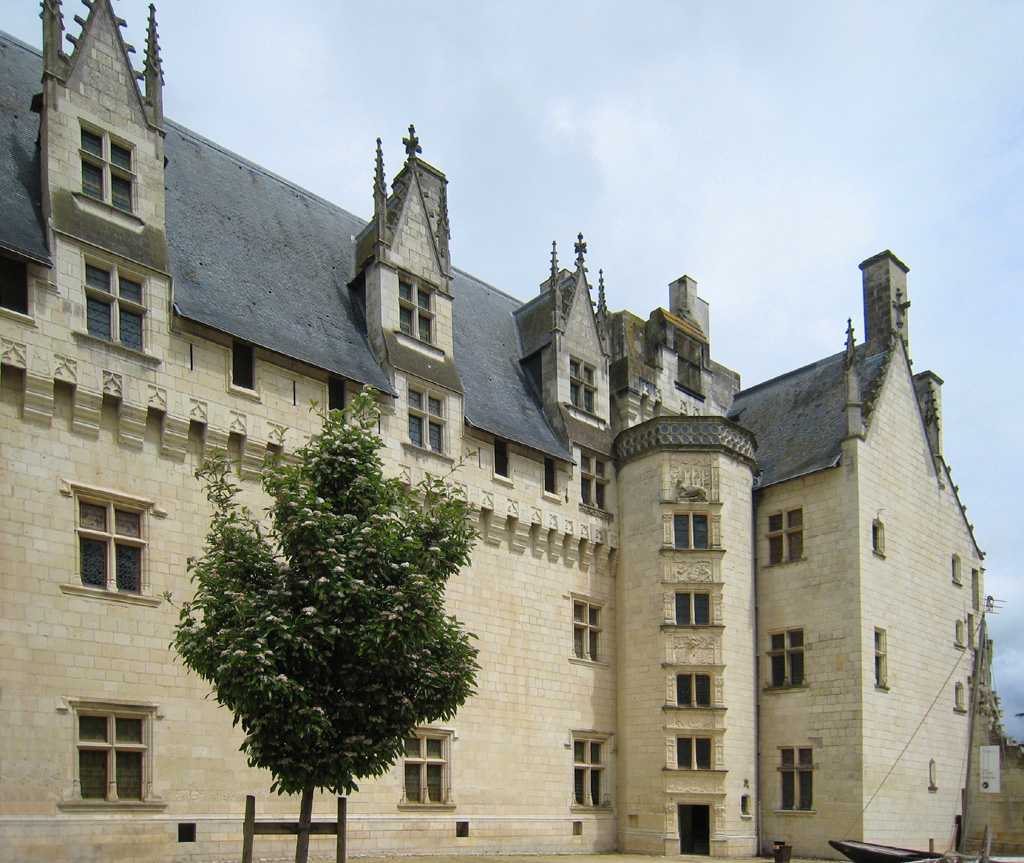 Castle of Montsoreau on the Loire River near Saumur in France, courtyard side